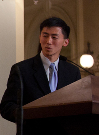 Goodwin Liu speaking in the Rotunda at the California State Capitol after being confirmed as Associate Justice of the Supreme Court of California